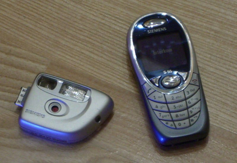 Siemens S55 mobile phone with attachable camera QuickPic IQP-500